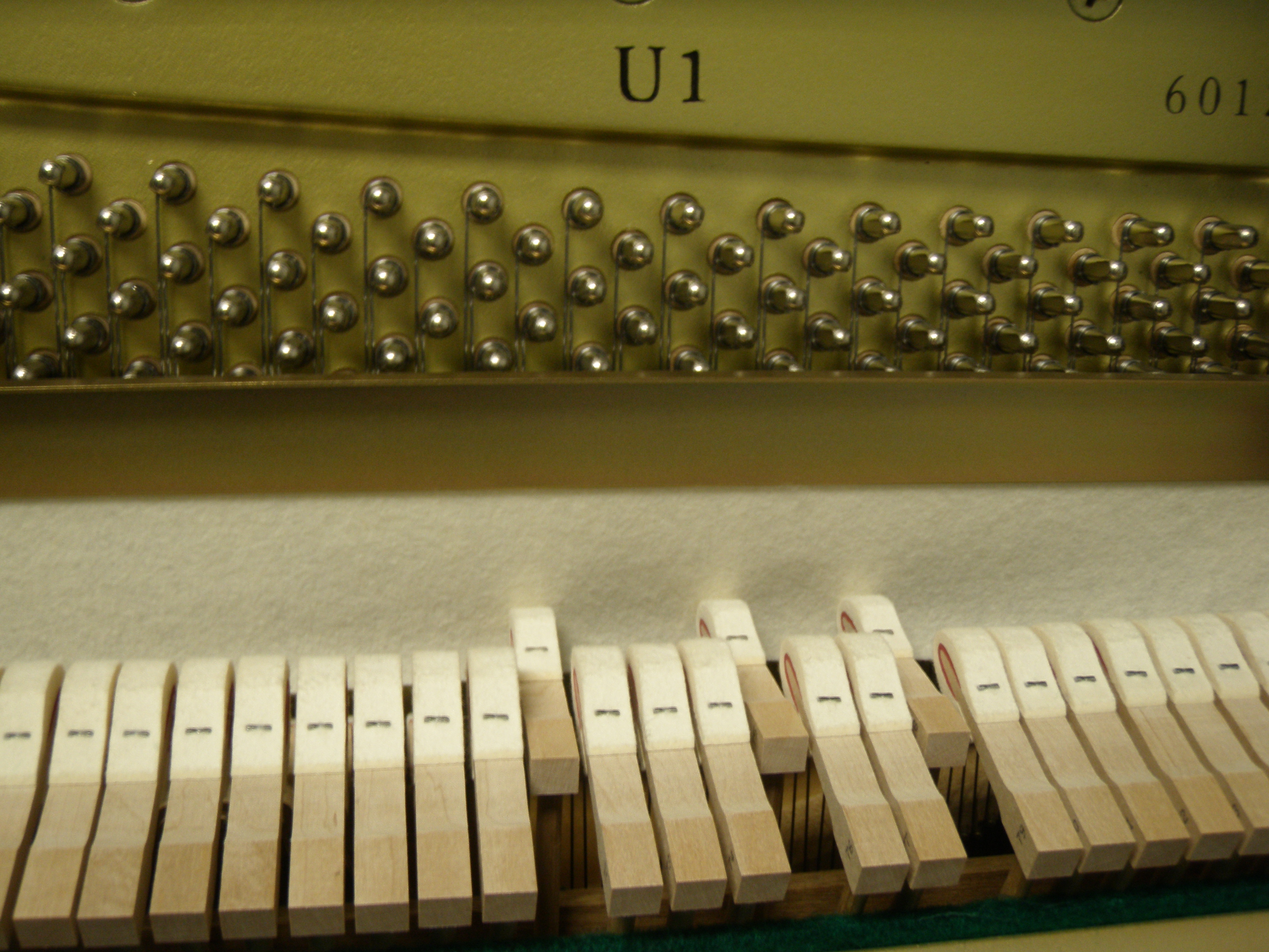 Yamaha U1 Silent piano